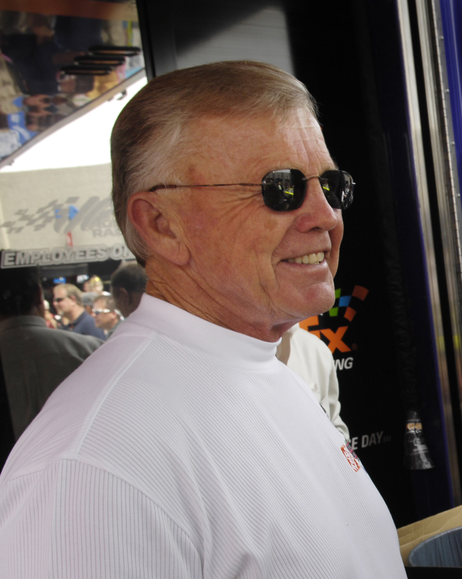 Joe Gibbs, Hall of Fame American football coach and NASCAR Championship team owner.